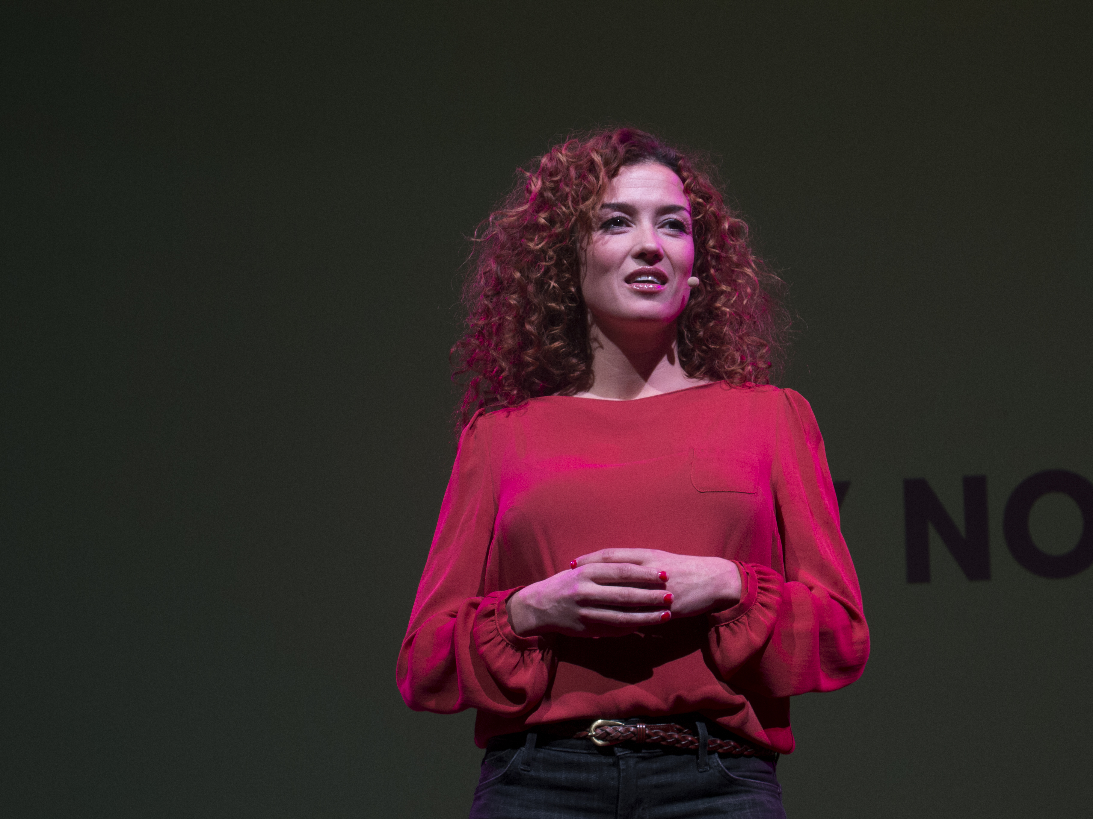 Katja Schuurman speaking at TEDxAmsterdam 2012